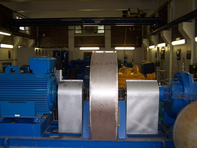 Water Pumping Station. This is the interior of the Pumping Station ... the Pump in foreground is one of the two electric motor driven pumps ... the Diesel Pump is just visible, painted yellow. 970565 970572